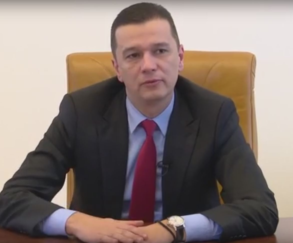 Romanian Prime Minister Sorin Grindeanu giving an interview in February 2015